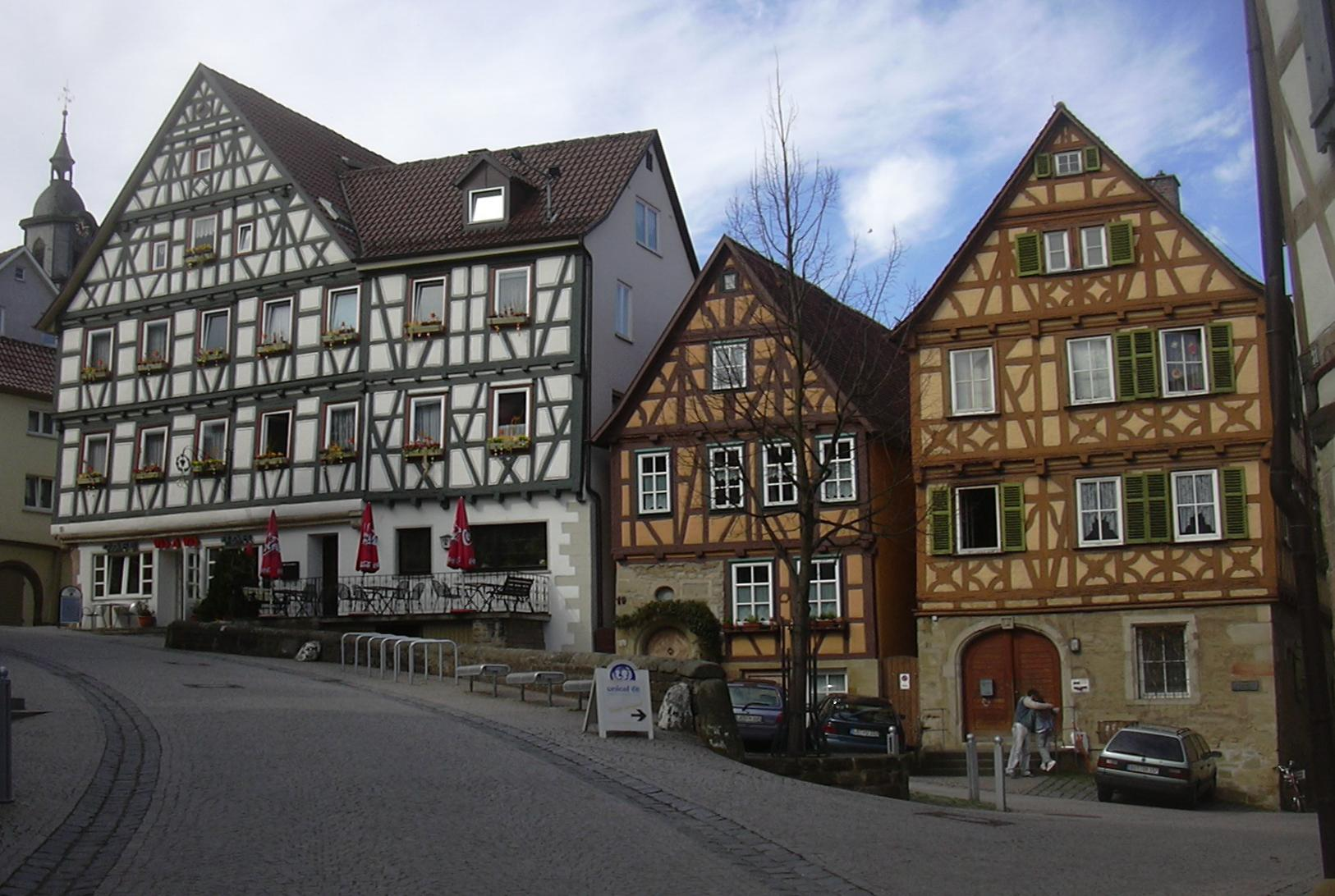 Square in Niklastorstraße, Marbach am Neckar (Germany)